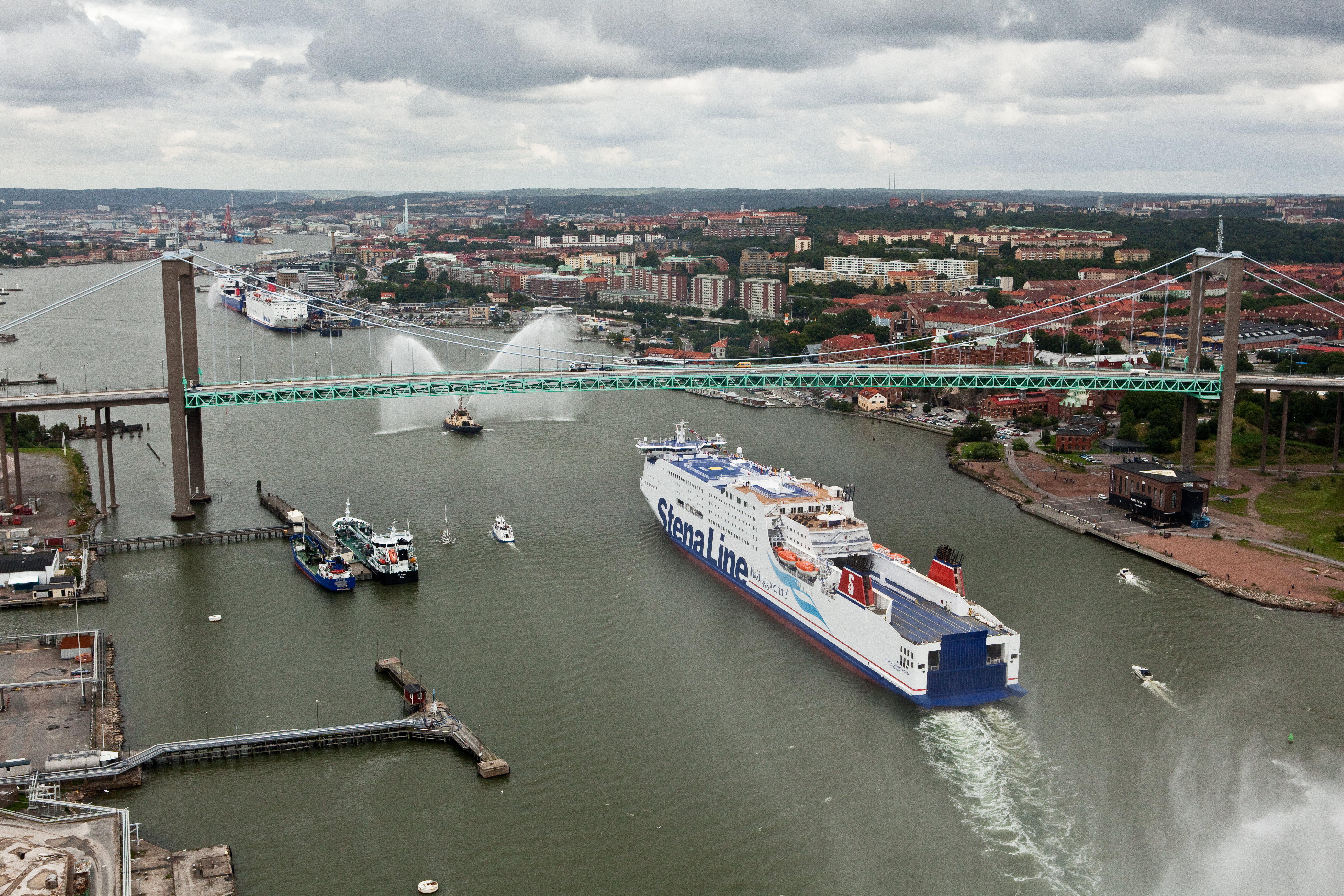 The new MS Stena Germanica passing under Älvsborg Bridge in the harbour of Gothenburg. In the foreground at the Stena Line Germany terminal ("Tysklandsterminalen") is the old Stena Germanica, now known as MS Stena Vision.